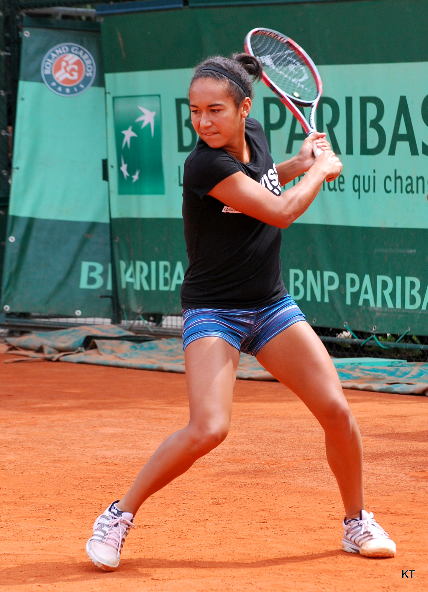 Heather Watson on the practice court before her 2nd round match with Julia Goerges. Day 5 of Roland Garros 2012.